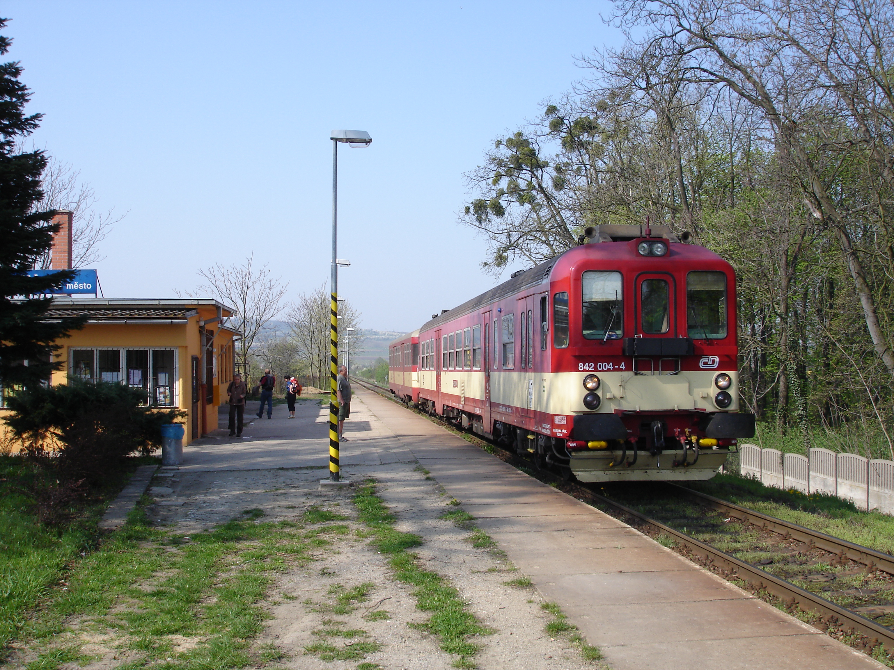 Passenger train in Valtice město, czech republic